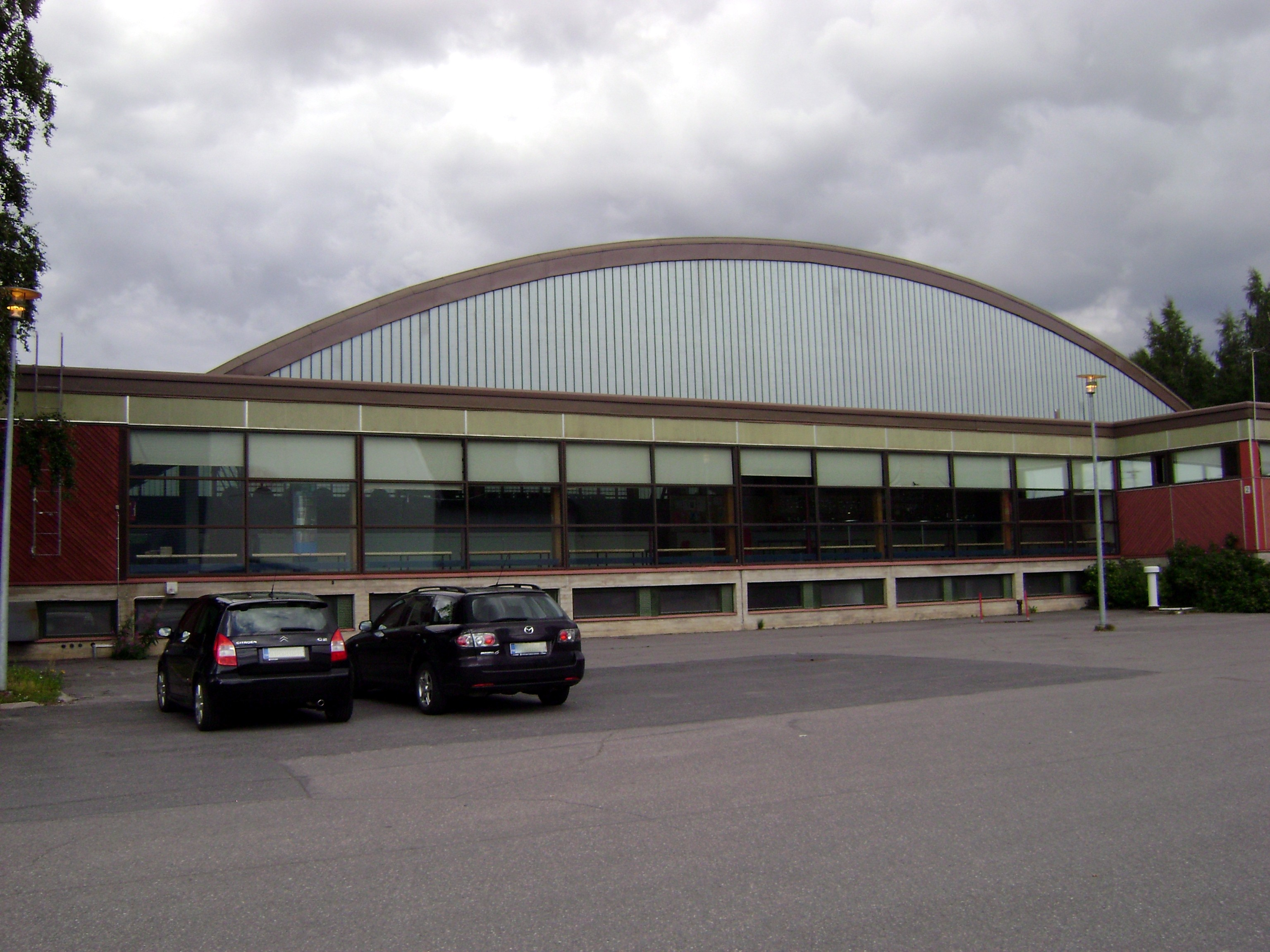 Tapiola sporting hall in Espoo.